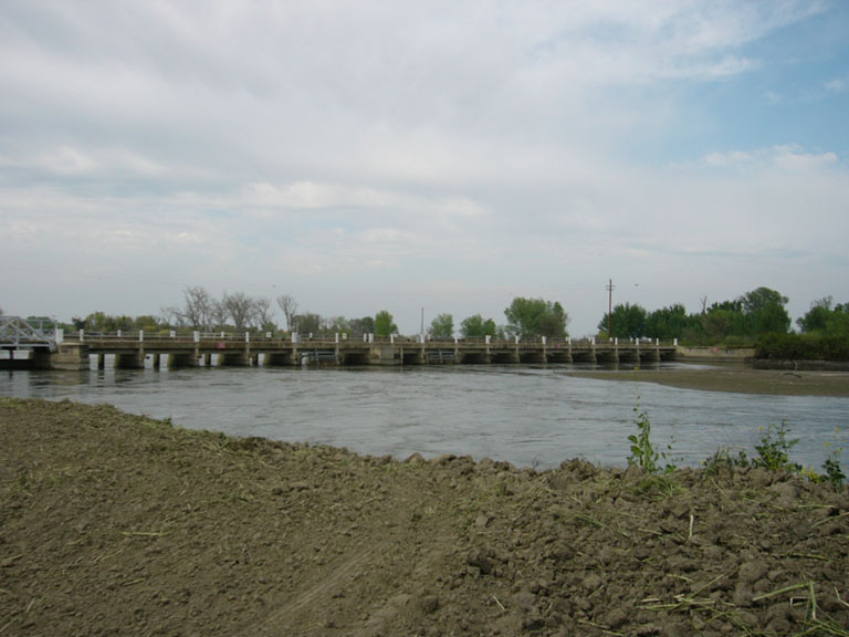 Mendota Pool at the confluence of the San Joaquin River and North Fork of the Kings River during flood monitoring conditions, April 2006.